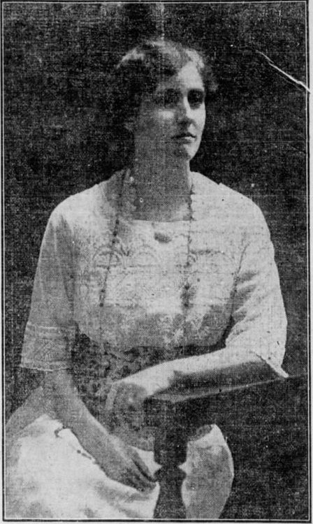 Photograph of Winona Flett published in 1914